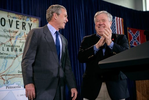 President George W. Bush and Mississippi Gov. Haley Barbour stand together at St. Stanislaus College in Bay St. Louis, Miss., Thursday, Jan. 12, 2006. "Part of the strategy to make sure that the rebuilding effort after the recovery effort worked well was to say to people like Haley, and the Governor of Louisiana and the Mayor of New Orleans, you all develop a strategy," said the President. "It's your state, it's your region, you know the people better than people in Washington -- develop the rebuilding strategy. And the role of the federal government is to coordinate with you and to help." White House photo by Eric Draper